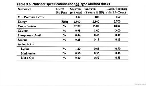 Eggs balut2